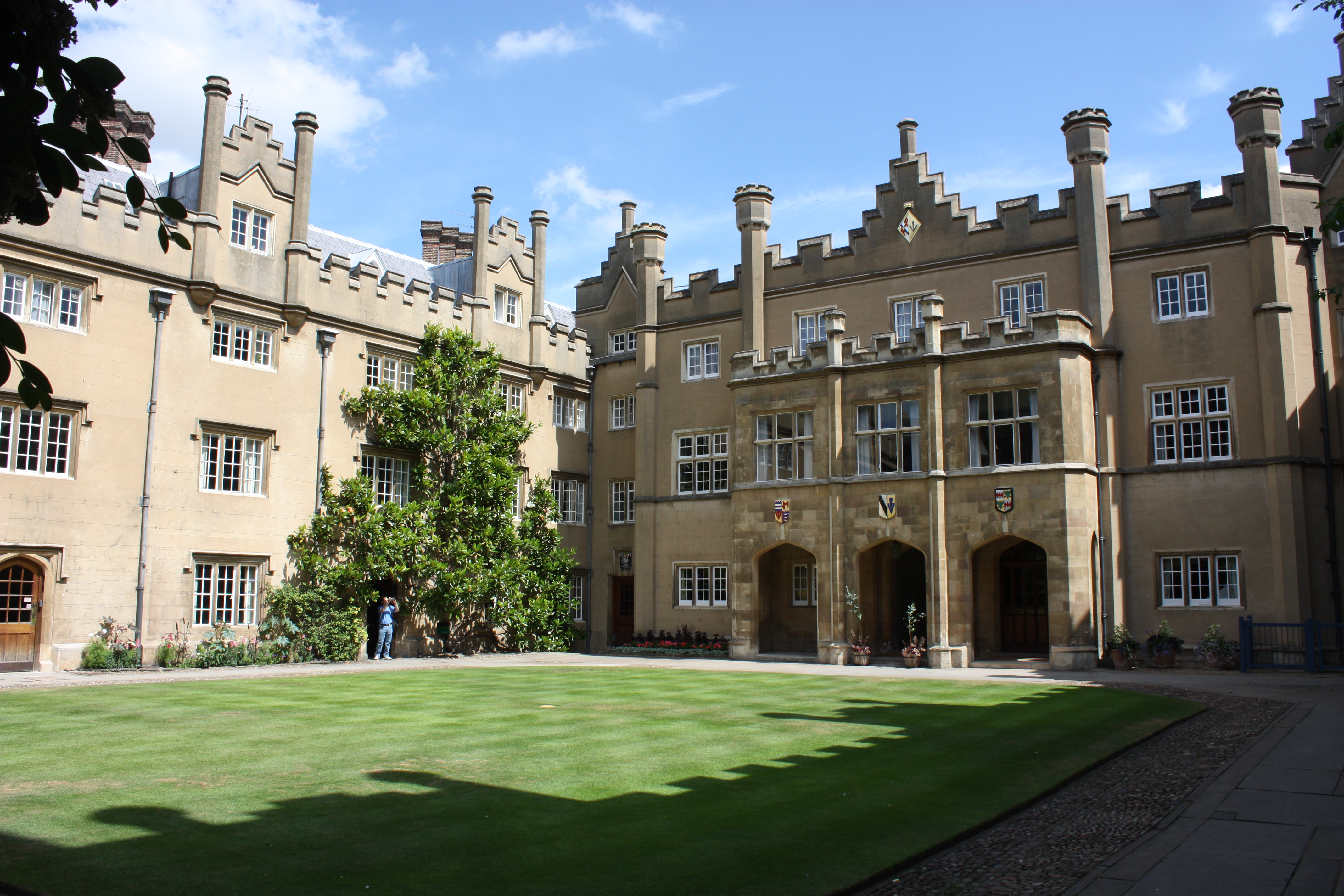 Sidney Sussex College, Sidney Street, Cambridge, Cambridgeshire, England, July 2010